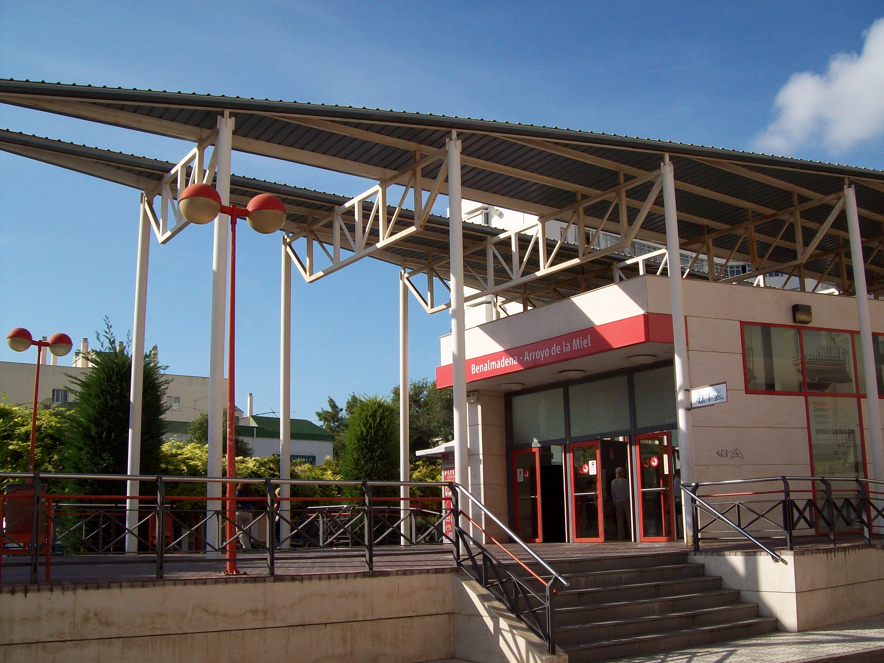 Benalmádena train station, C1 line Cercanías Málaga